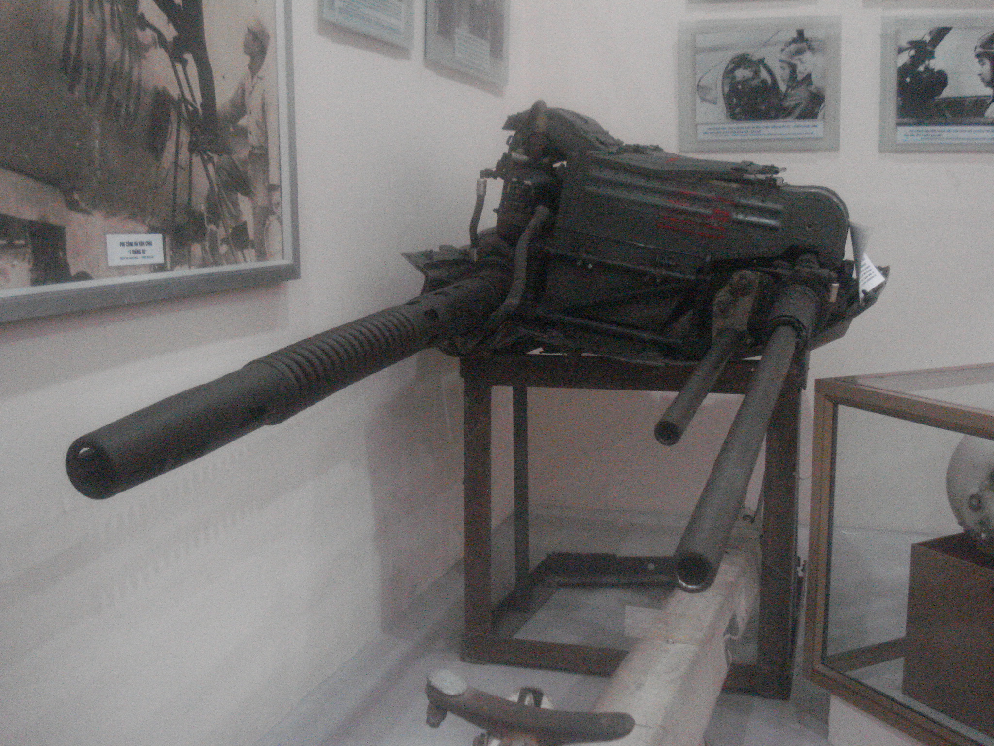 my own work